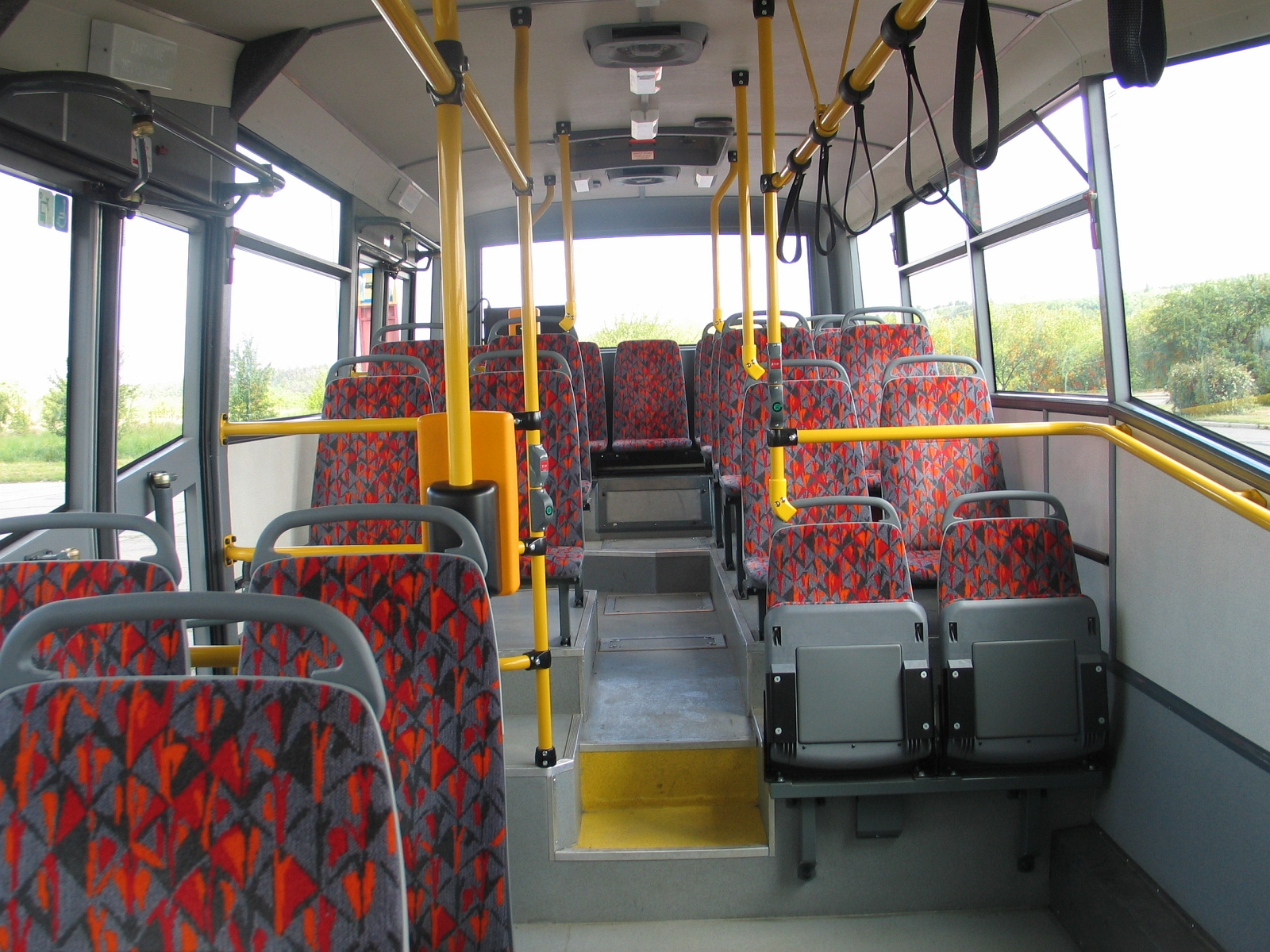 SOR BN 12, interior.